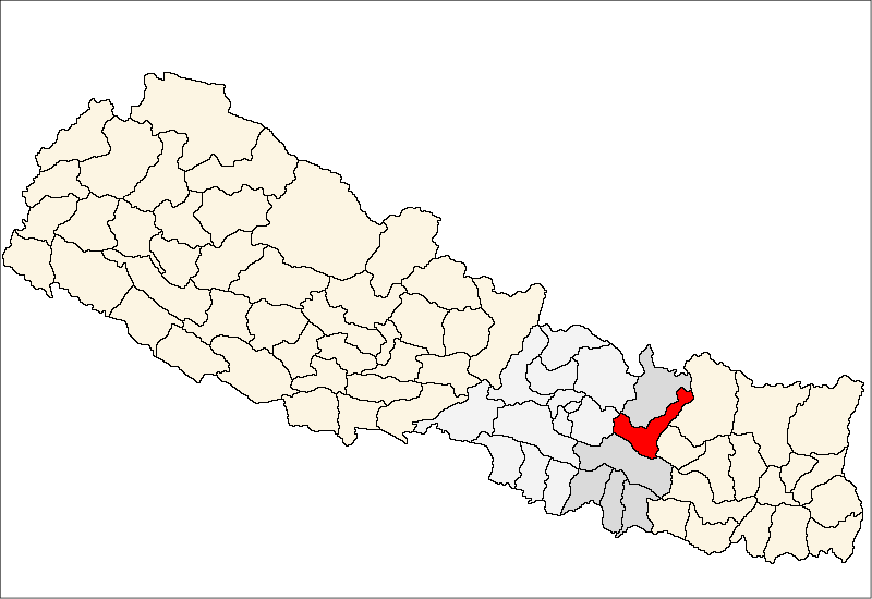 FrenchCarte de localisation dudistrict de Ramechhap(wp-FR),au Népal (wp-FR).EnglishLocation map ofRamechhap District(wp-EN),in Nepal (wp-EN).